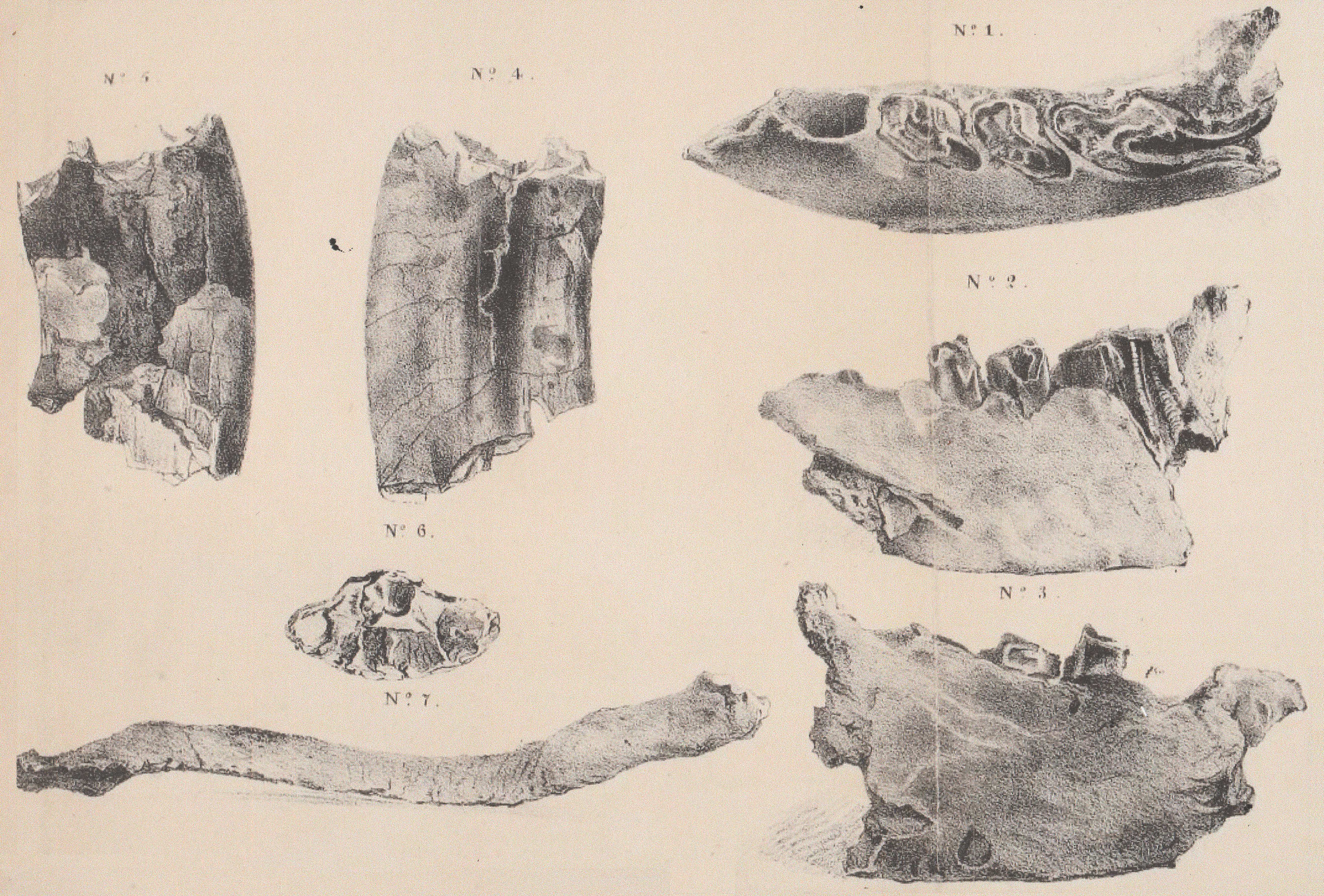 First finds of Paramylodon published by Richard Harlan: Description of the jaws, teeth, and clavicle of the Megalonyx laqueatus. The Monthly American journal of geology and natural science 1, 1831, pp. 74–76 (plate 3; described as Megalonyx laqueatus)